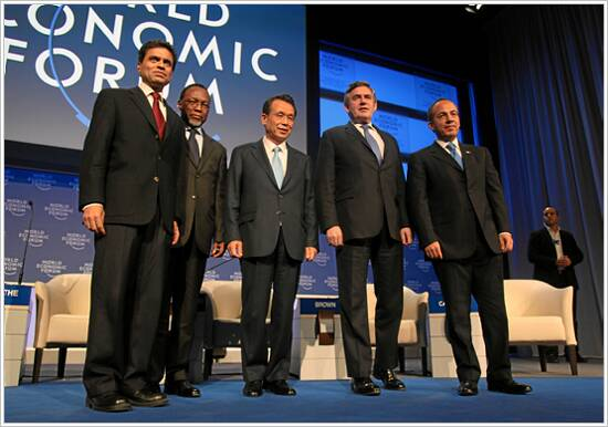 Fareed Zakaria, editor of Newsweek International; Kgalema Motlanthe, President of South Africa; Han Seung-Soo, Prime Minister of the Republic of Korea; Gordon Brown, Prime Minister of the United Kingdom; Felipe Calderón, President of Mexico; captured during the session 'Reviving Economic Growth' at the Annual Meeting 2009 of the World Economic Forum in Davos, Switzerland.